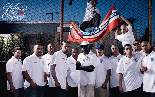 Umbro shoots the Compton Cricket Club in the new National English Soccer Jersey in South Central LA